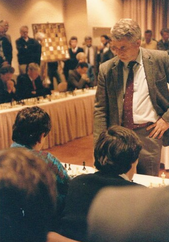 Playing in a simultaneous exhibition against former world champion Boris Spassky. (Scanned from a print. Photo by my father, Robert Tredinnick)